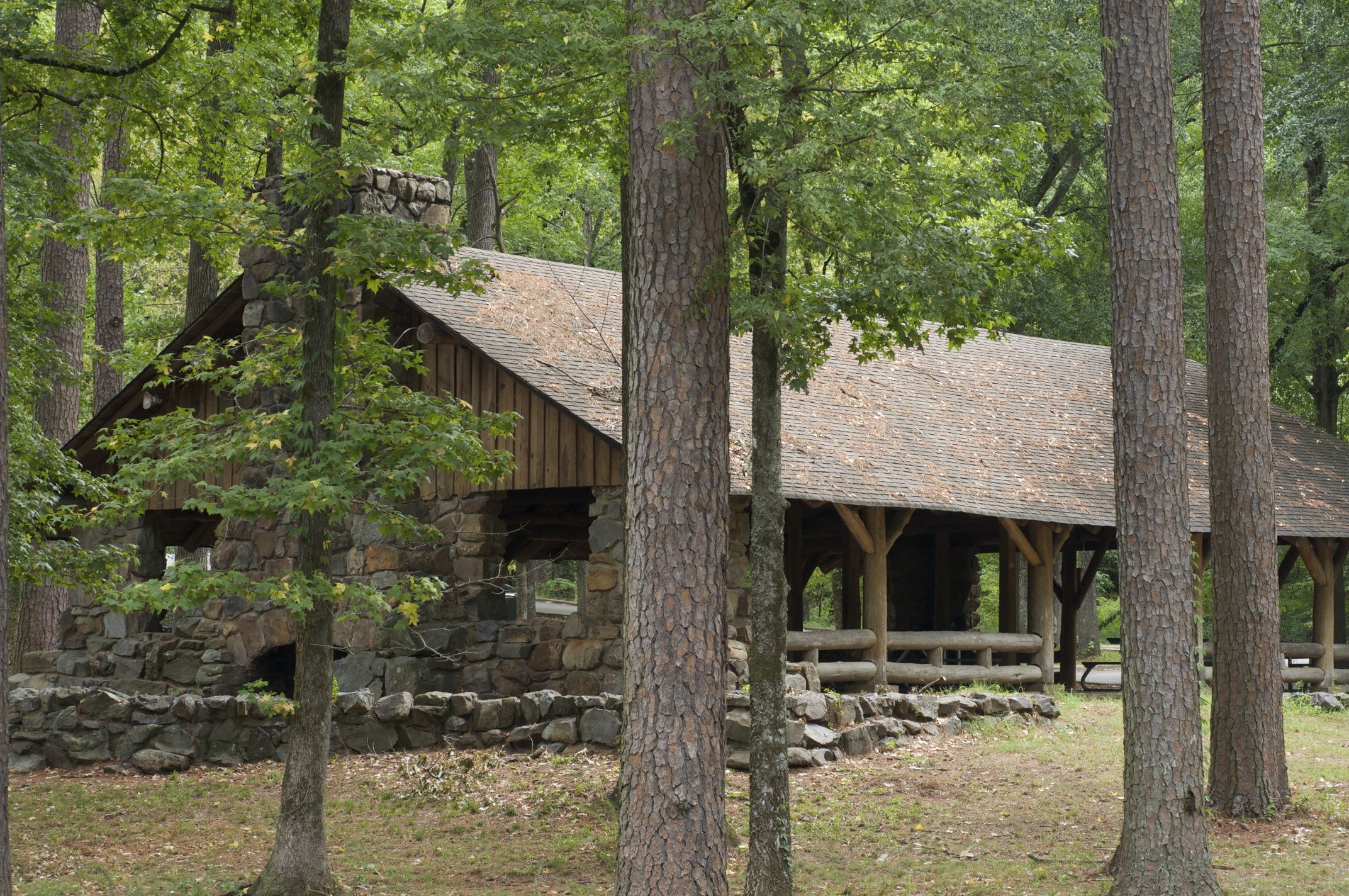 Built by the Civilian Conservation Corps in the late 1930s. A classic example of the early 20th century Rustic style of architecture Boyle Park, Little Rock, Pulaski County, Arkansas